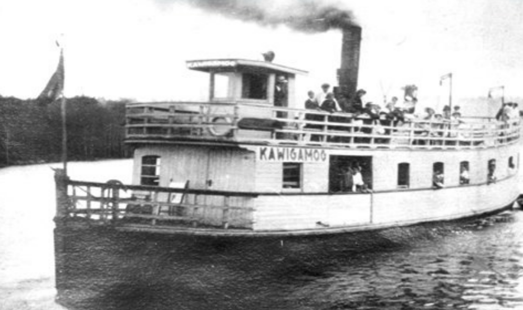 Steamship Kawigamoo in northern Ontario.